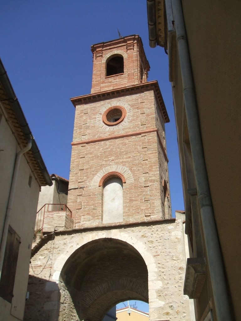 Sainte-Marie-la-Mer : Tour de l'Horloge (Clock tower), build on one of the gates of the medieval fortification wall